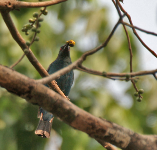 Asian Fairy Bluebird Irena puella at Jayanti in Buxa Tiger Reserve in Jalpaiguri district of West Bengal, India.